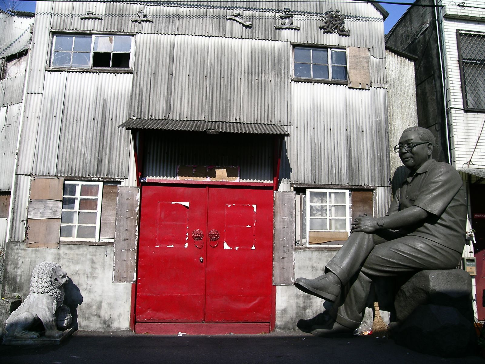 Chiang_Ching-kuoBân-lâm-gú: Tsiúnn King-kok. 蔣經國